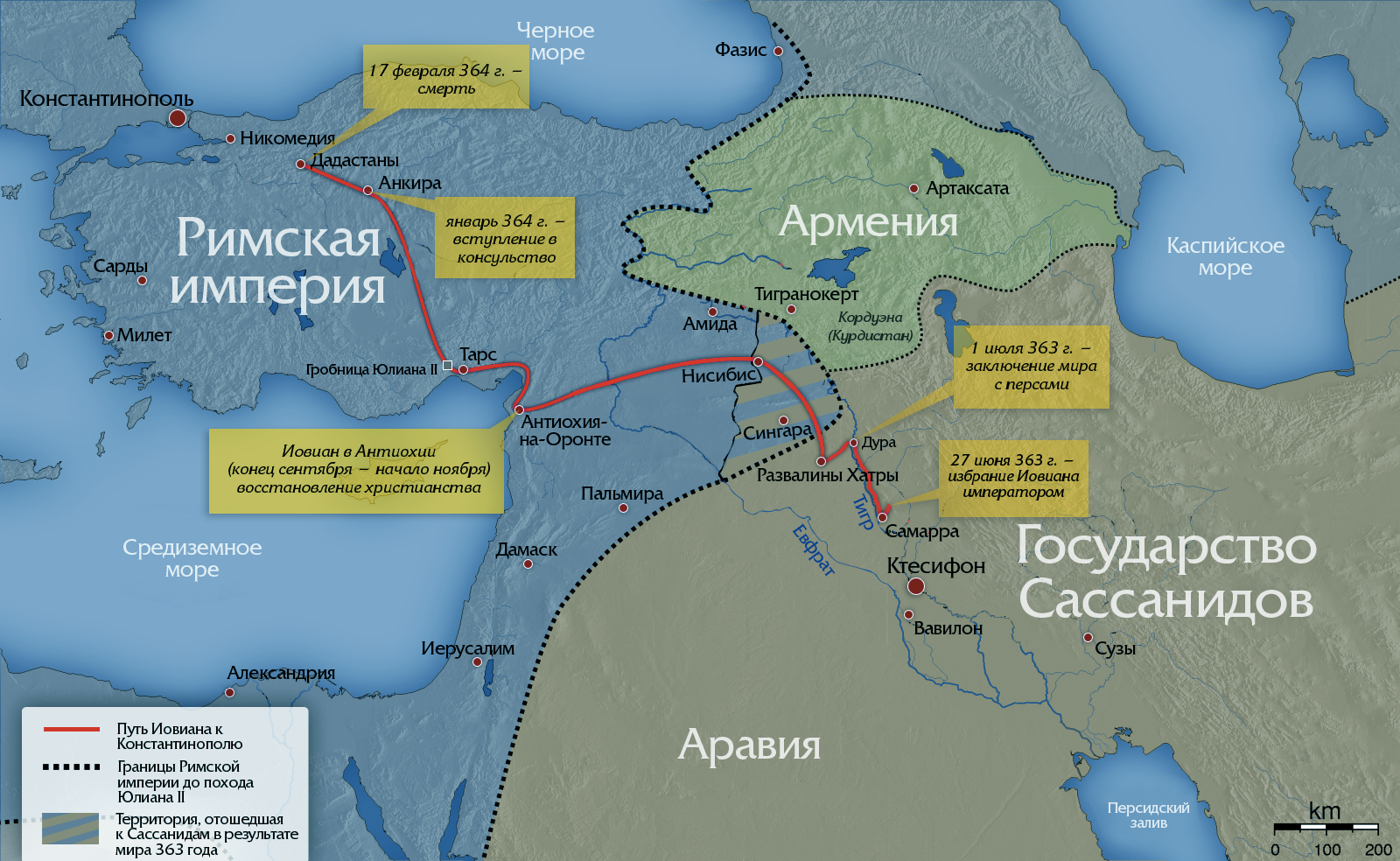 The jorney of emperor Jovian (363-364) and most important events of his reign in the east of Roman Empire